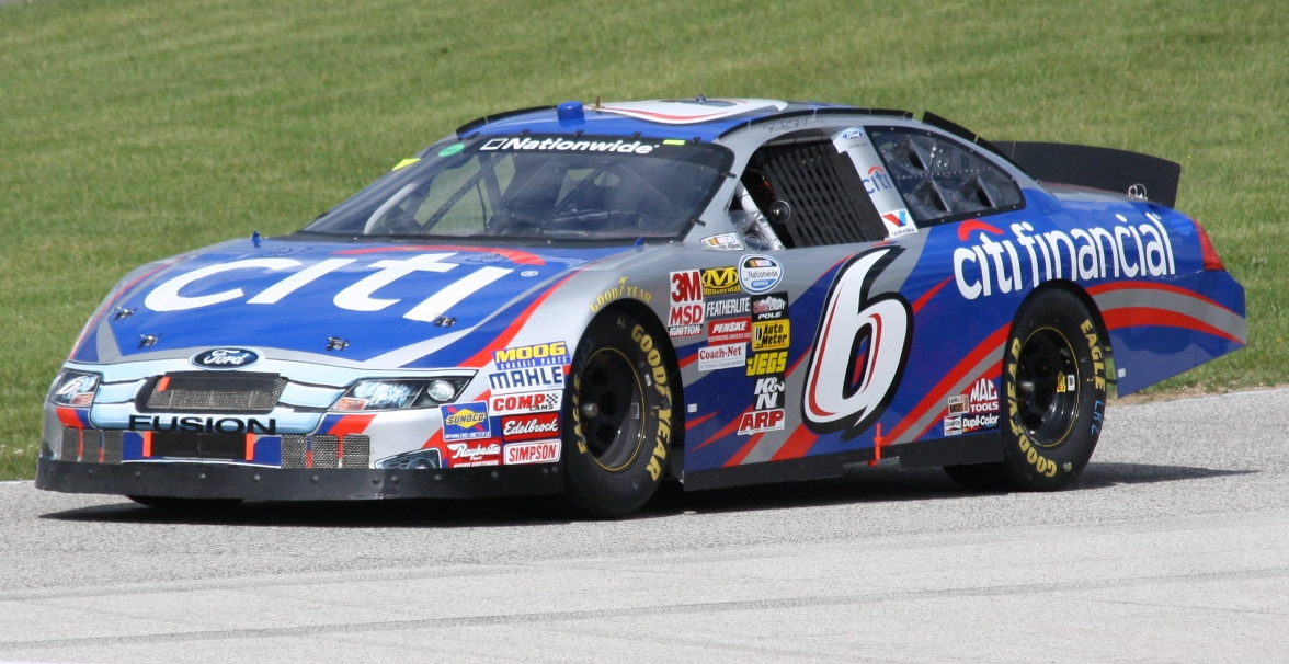 The NASCAR racecar for driver Ricky Stenhouse, Jr. at the 2010 Bucyrus 200 at Road America.